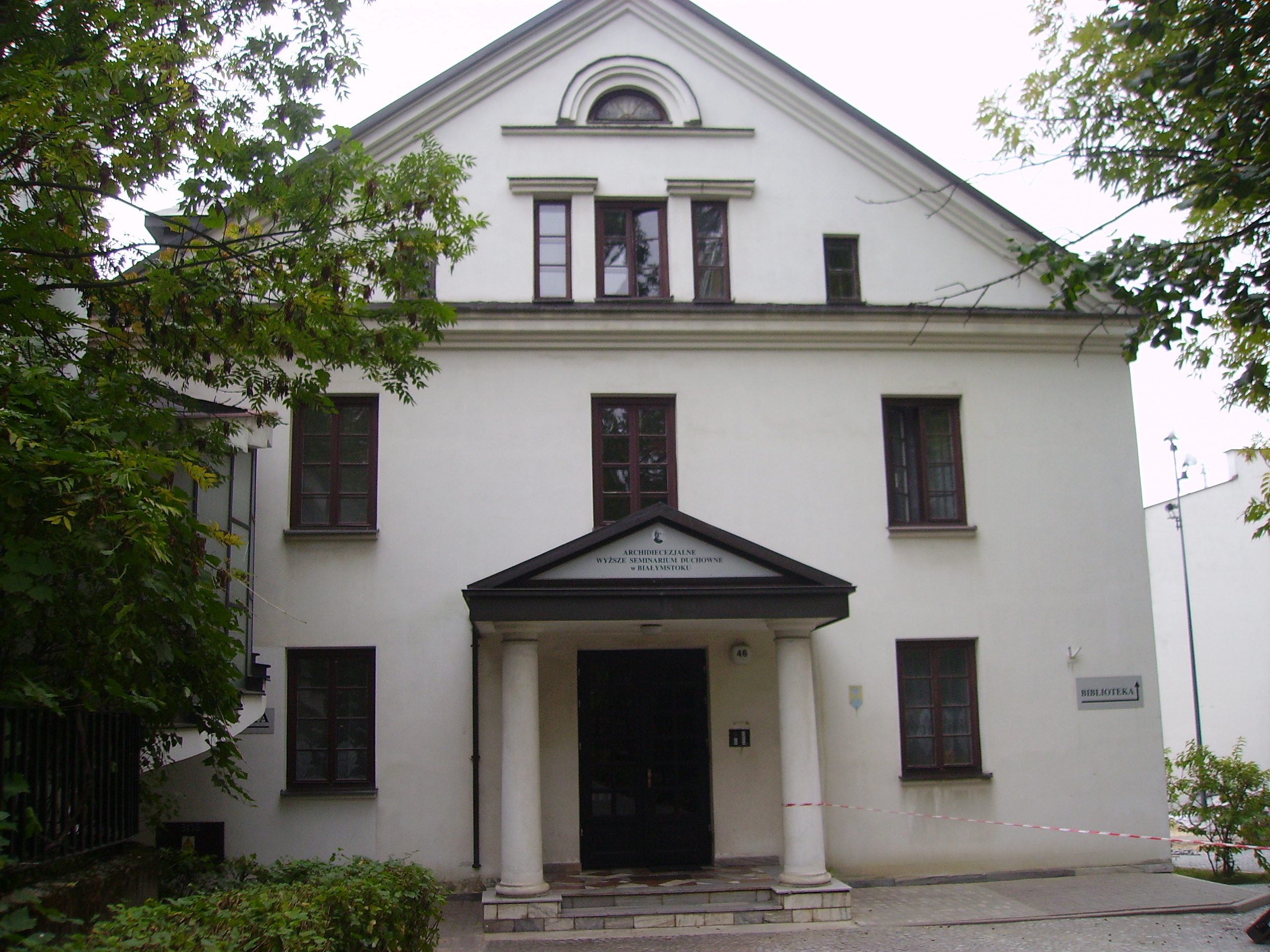 Archdiocesan Seminary in Białystok, Warszawska 46 street